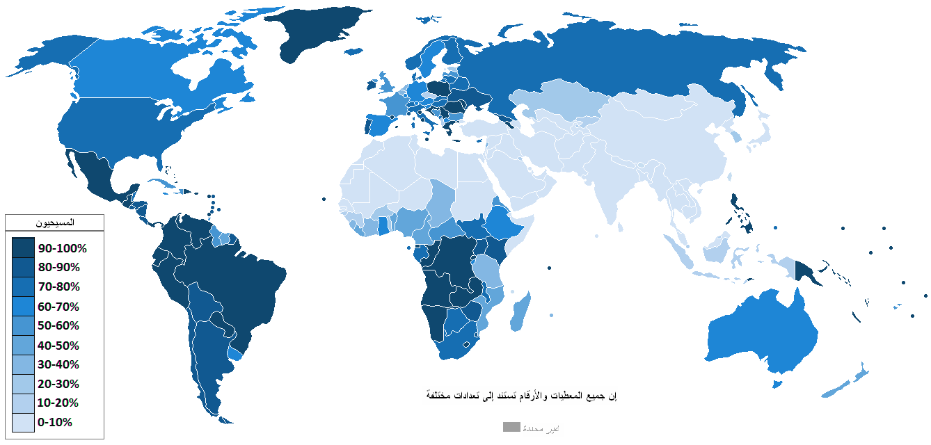 Map of the distribution of Christians of the world Date: 2ème moitié du XIXème siècle